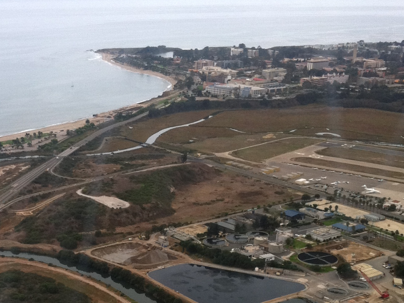 Aerial view of the Goleta Slough and Goleta — in Santa Barbara County, California. Showing Goleta Beach, UCSB (University of California, Santa Barbara), Mescalitan Island, and the Goleta Water Treatment Facility. Mescalitan Island was the site of a Chumash village called Helo'.